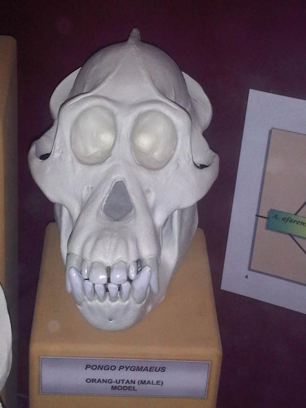 Bornean orangutan (Pongo pygmaeus) male, skull model; at the National Museum of Natural History, Vilhena Palace, Republic of Malta.